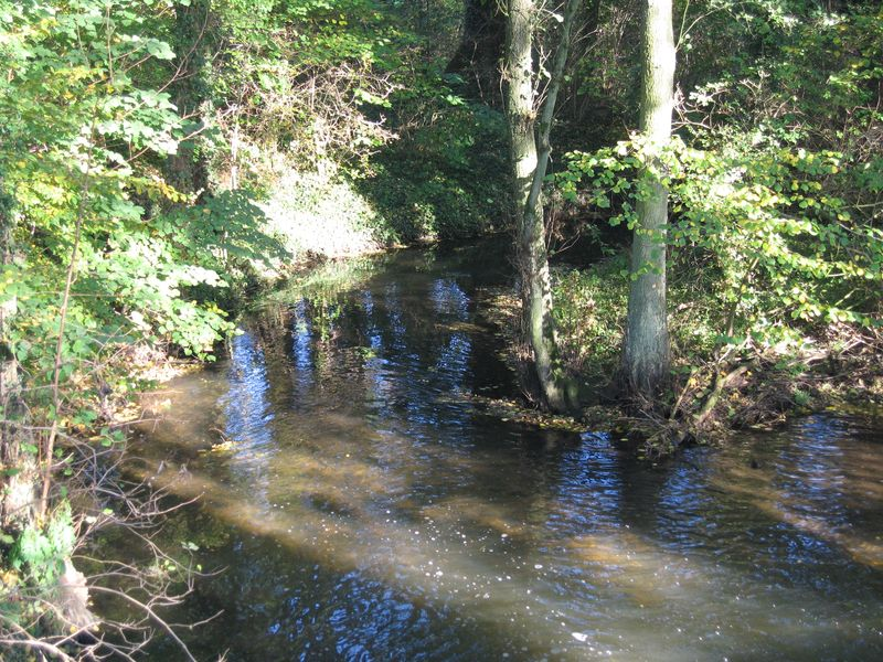 Staersbach